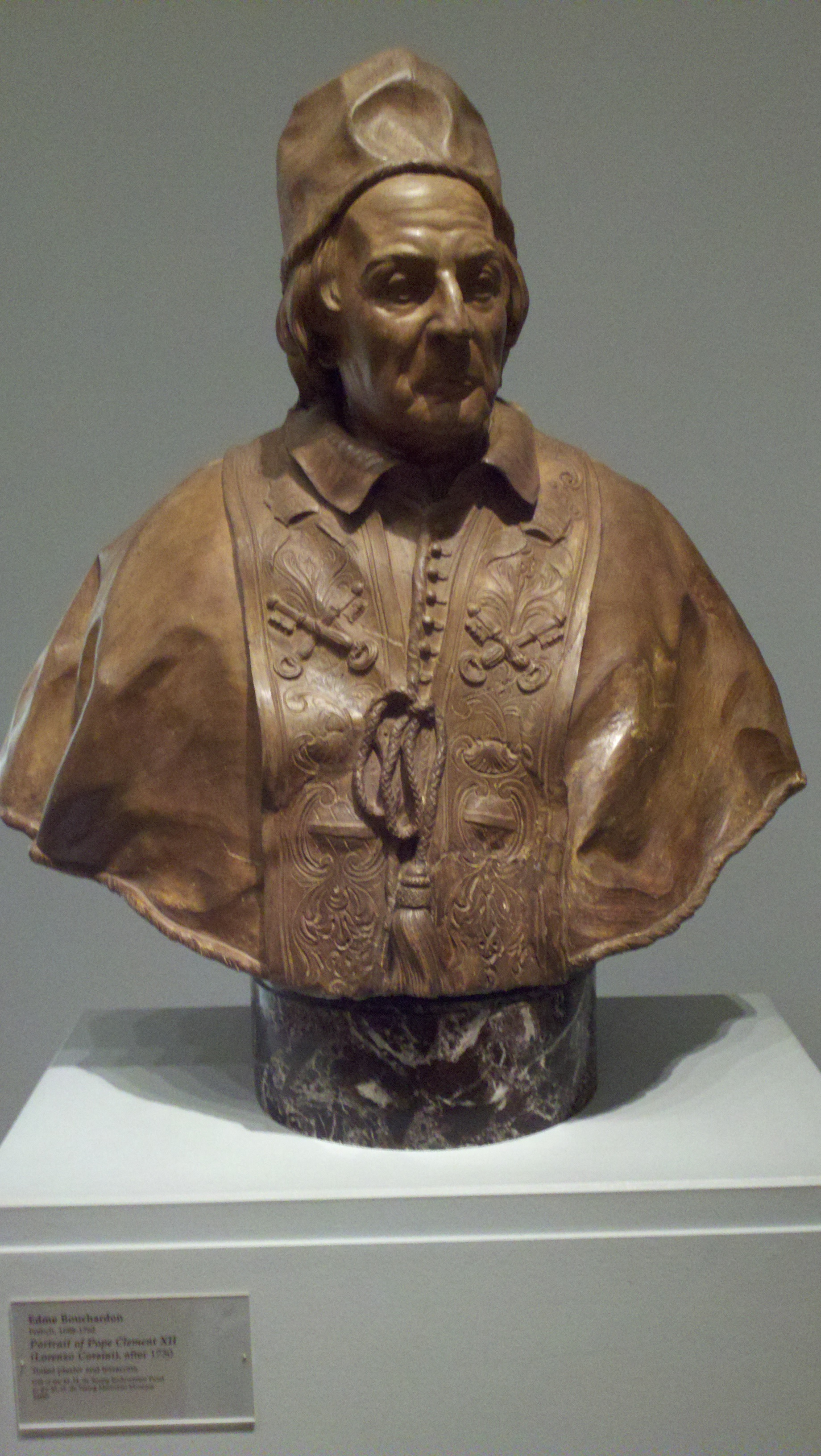 A plaster and terra cotta bust of Pope Clement XII by Edme Bouchardon at the Palace of the Legion of Honor in San Francisco